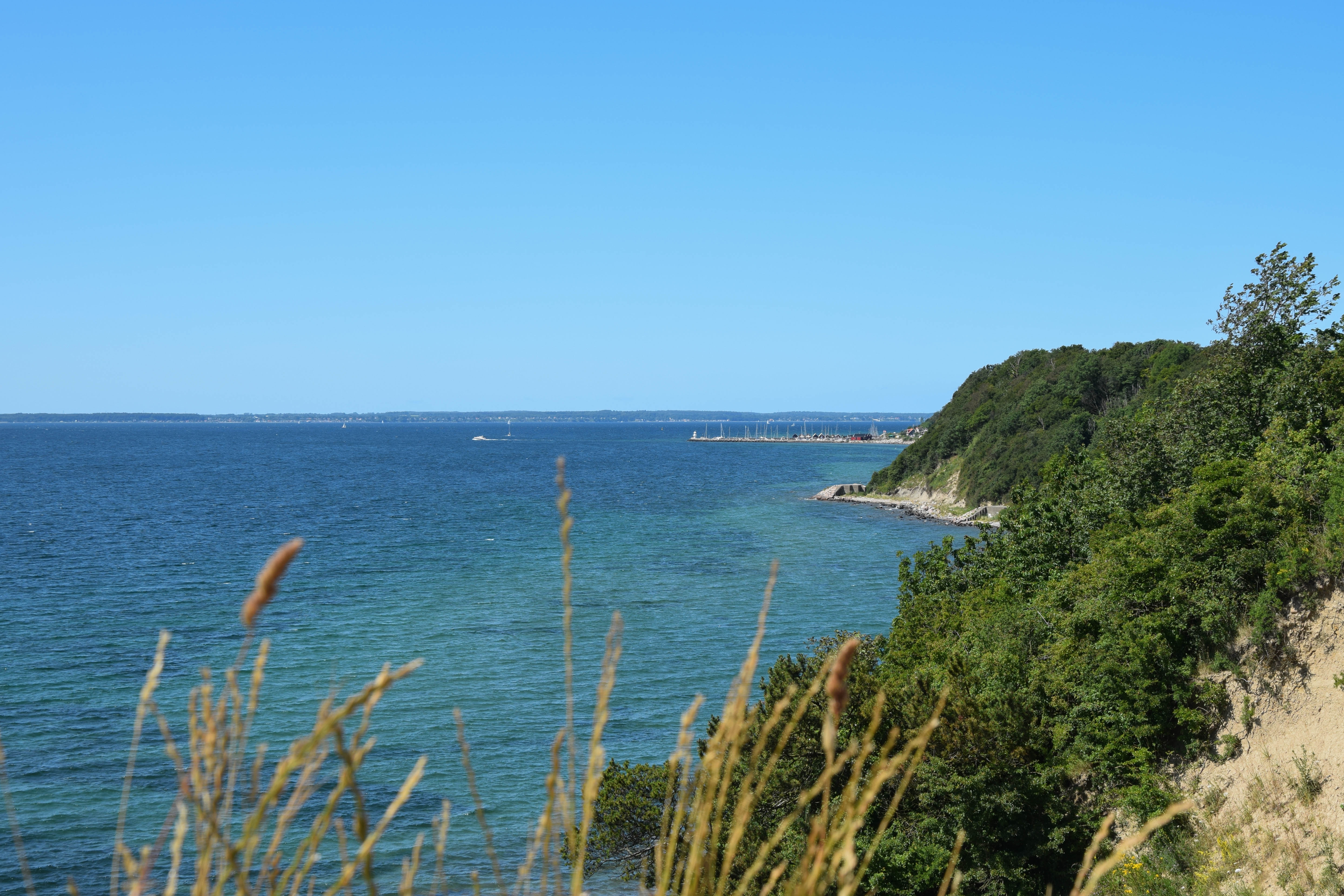 Ven - a small island in Öresund, Sweden